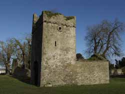 Eoghan Corry for Wikipedia